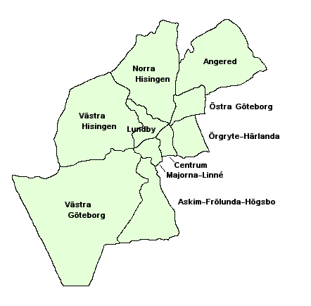 Boroughs of Göteborg in 2012